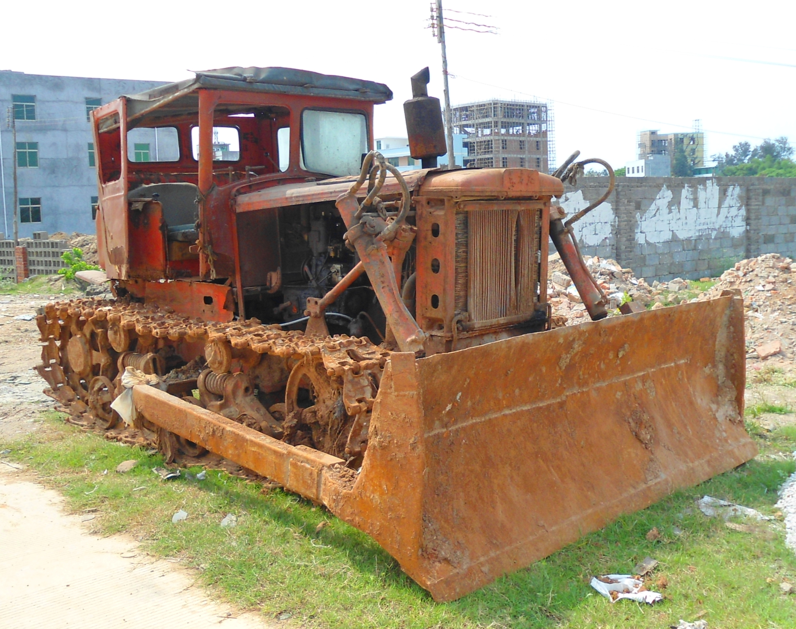 An early model 东方红 (First Tractor Company) tractor, still operational, in Xinbu Island, Hainan Province, China.